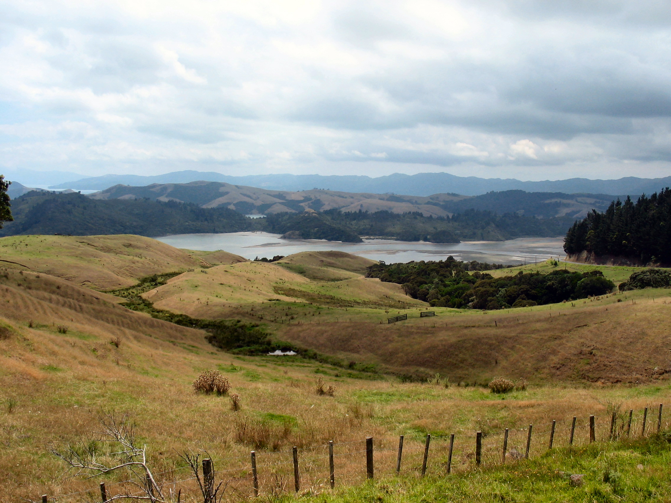 Manaia Harbour, Coromandel coast, New Zealand